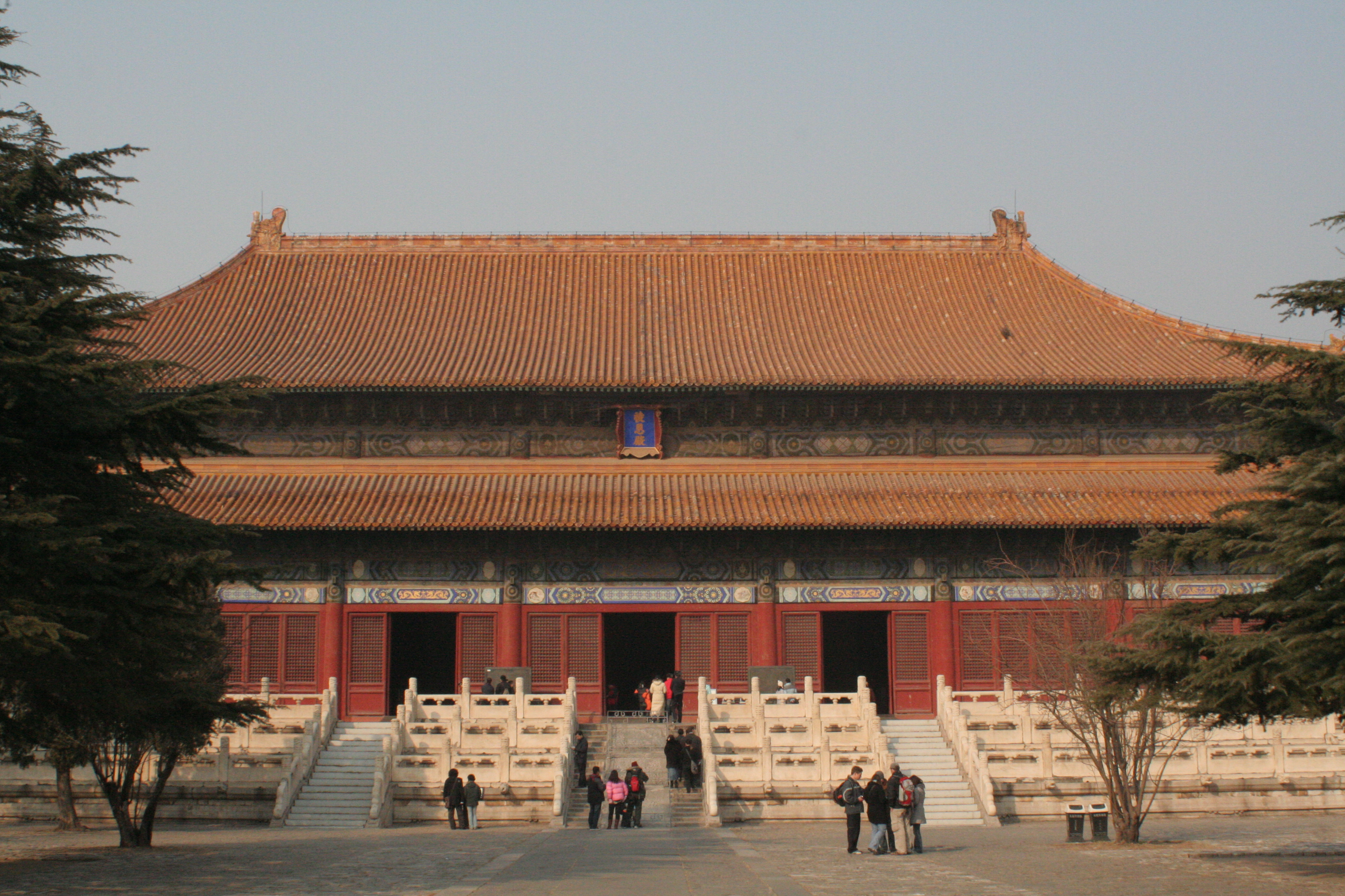 The Ming Dynasty Tombs, Beijing